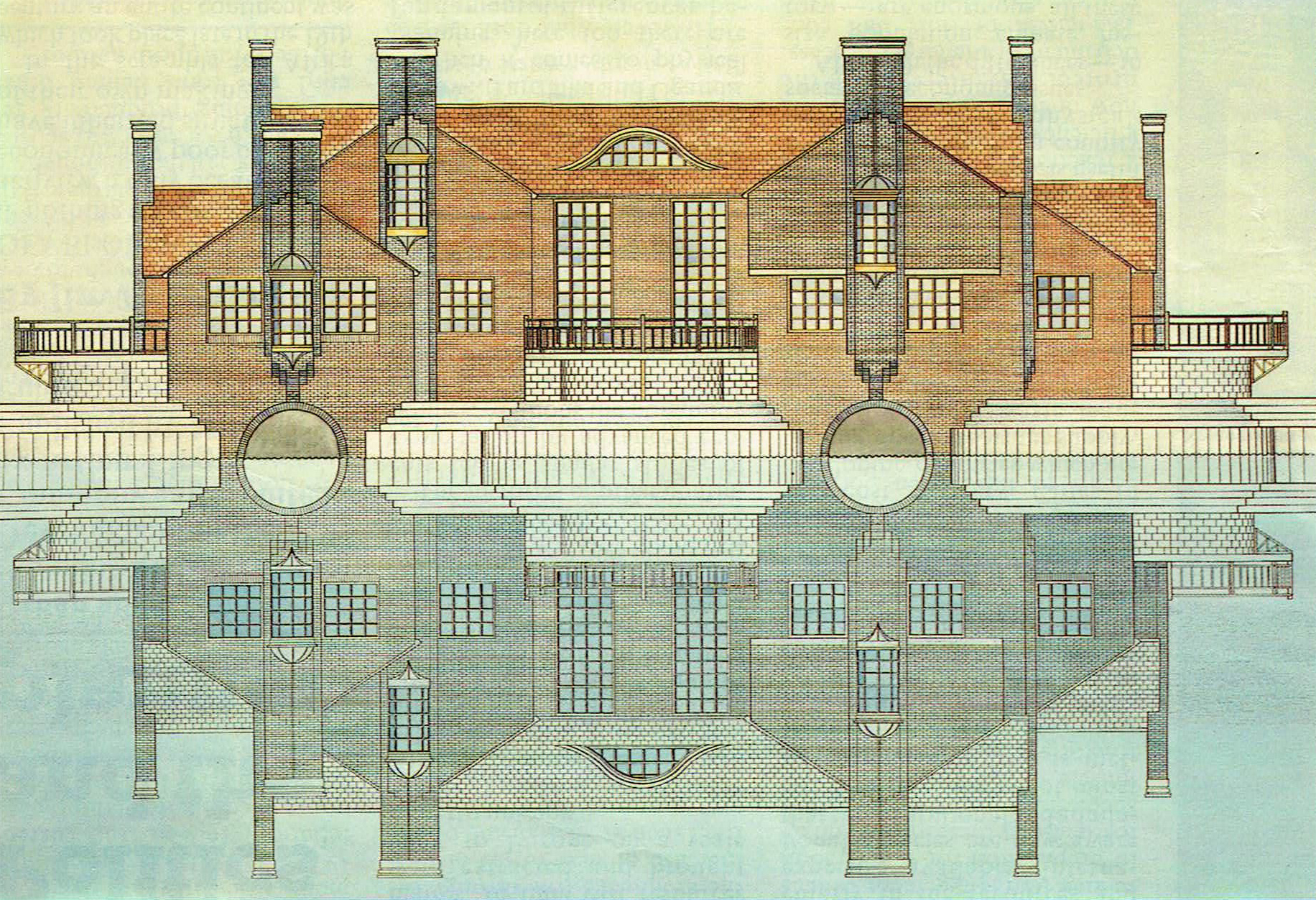 The architect's drawing of Church Island House in Staines, by Dr. Basil Al Bayati